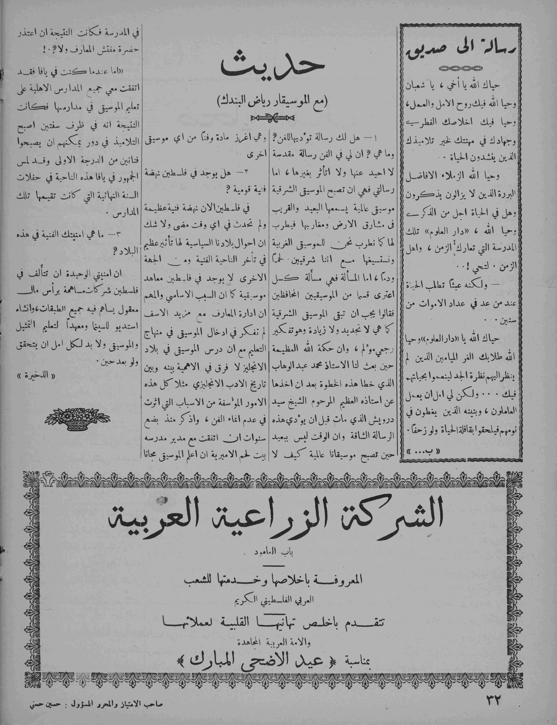 Interview with Riad Elbendak from Al-Dhakhira newspaper